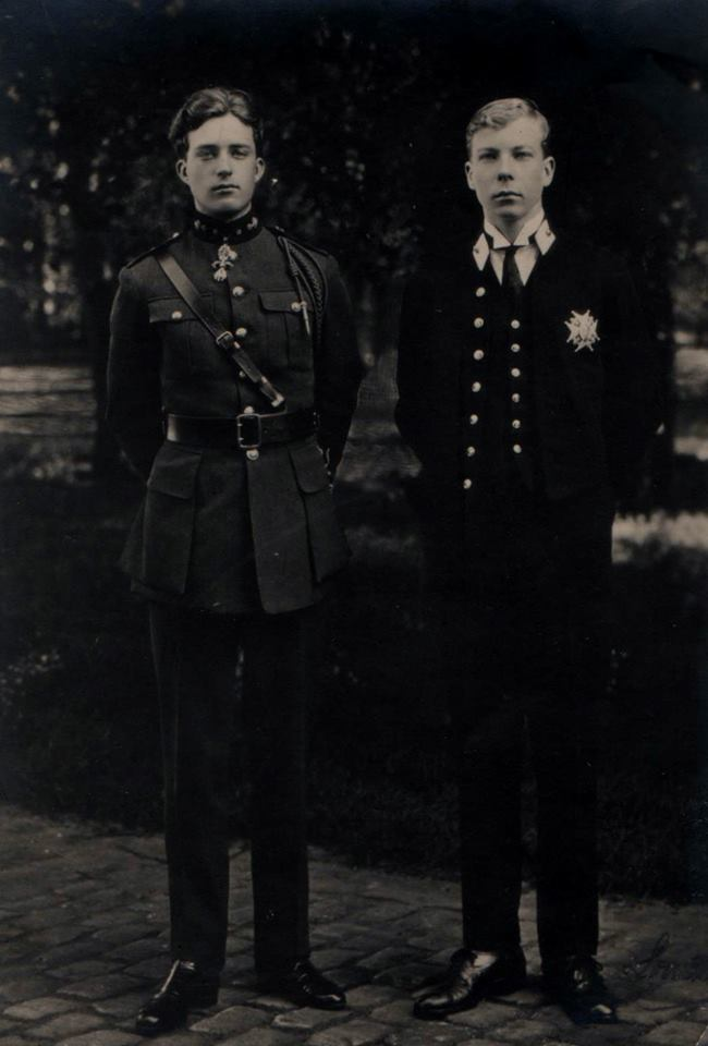 King Leopold III of Belgium and little brother Charles, Count of Flanders